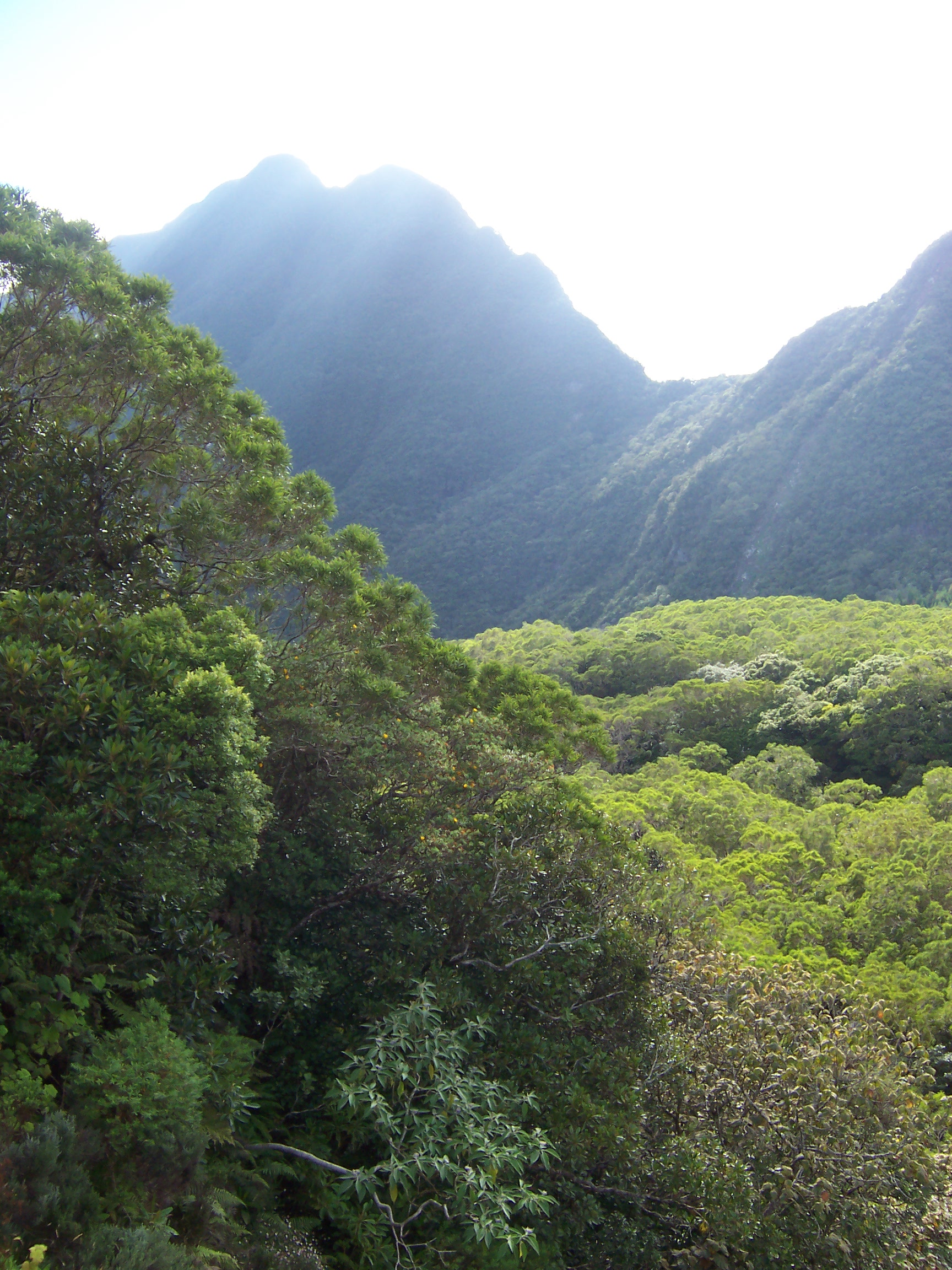 A view over Bélouve's forest (Réunion island) under the Mazerin peak